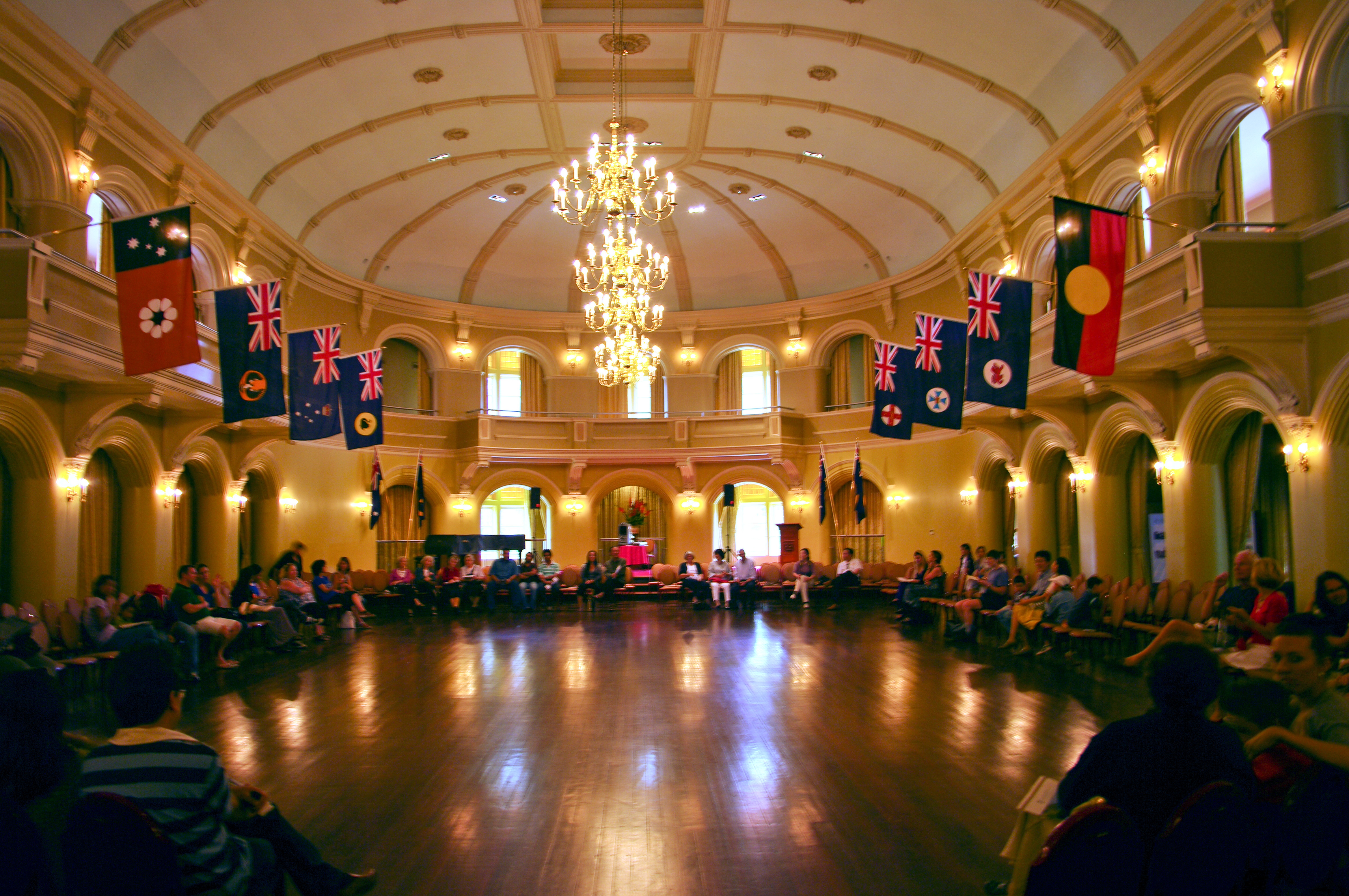 Photographs taken during Heritage Day Perth Western Australia ballroom